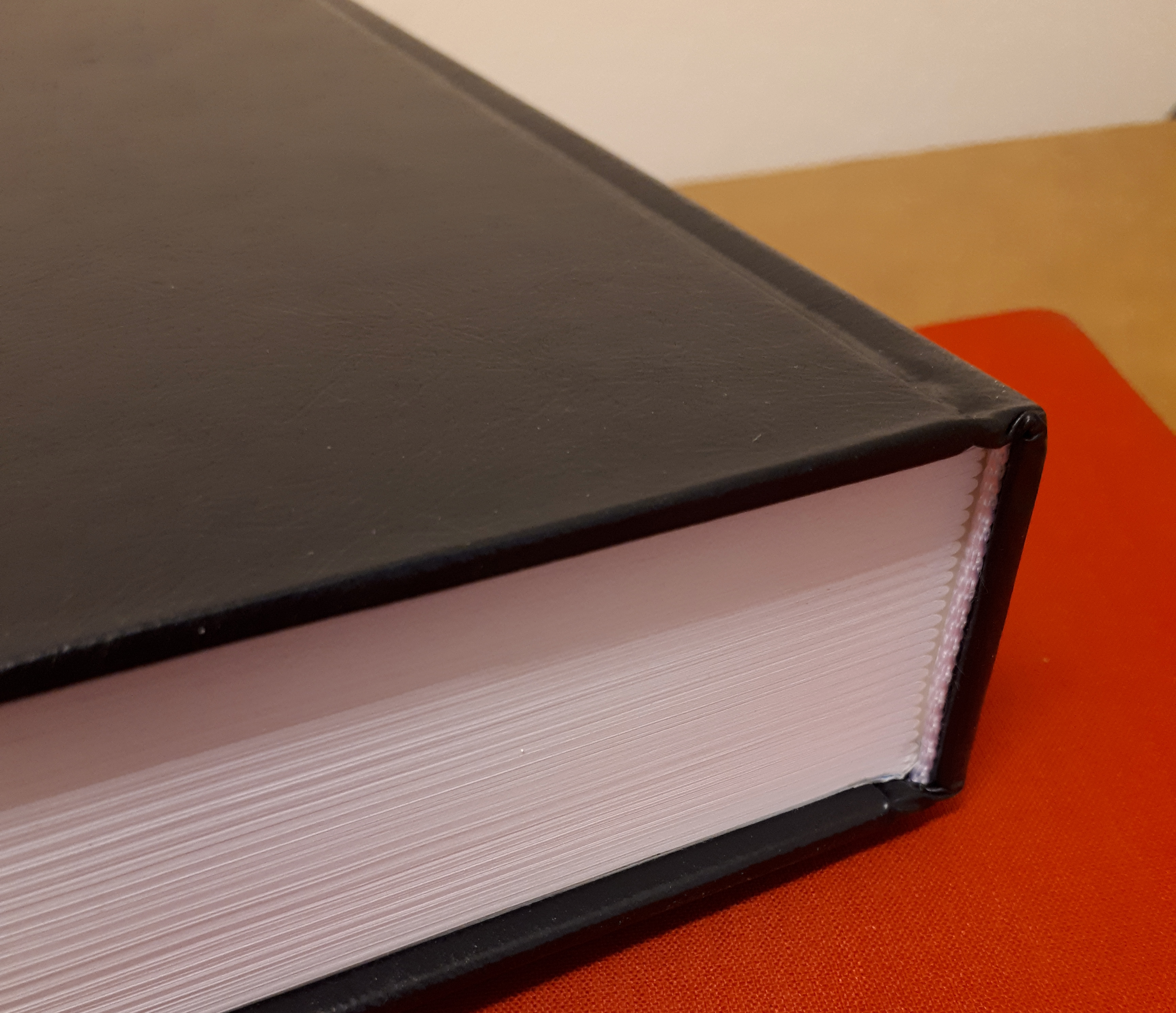 The flat spine of the book